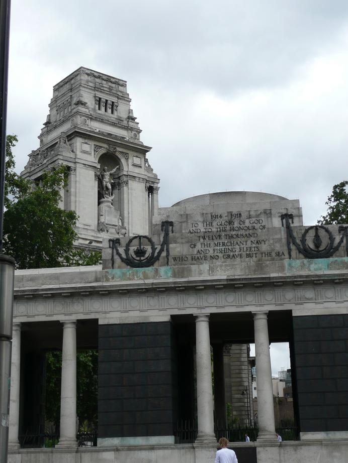 Tower Hill Memorial, London